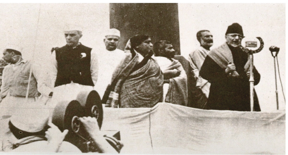 Jawaharlal Nehru, industrialist Jamnalal Bajaj, Sarojini Naidu, Khan Abdul Ghaffar Khan, and Maulana Azad at the 1940 Ramgarh Session of the Indian National Congress in which Azad was elected president for the second time.